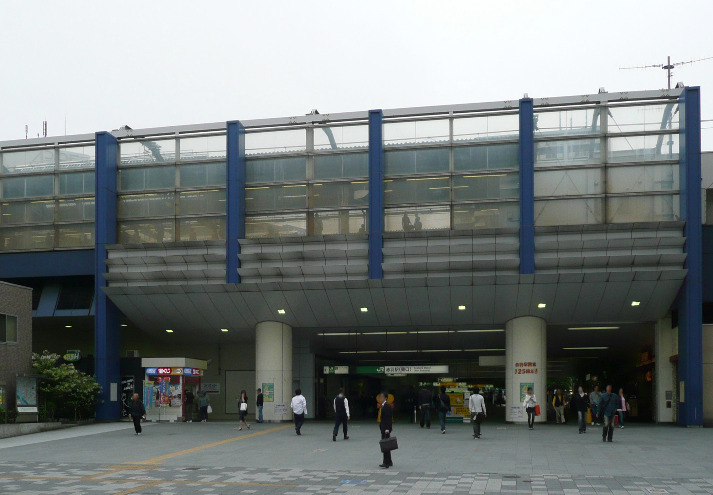 East entrance of Akabane Station